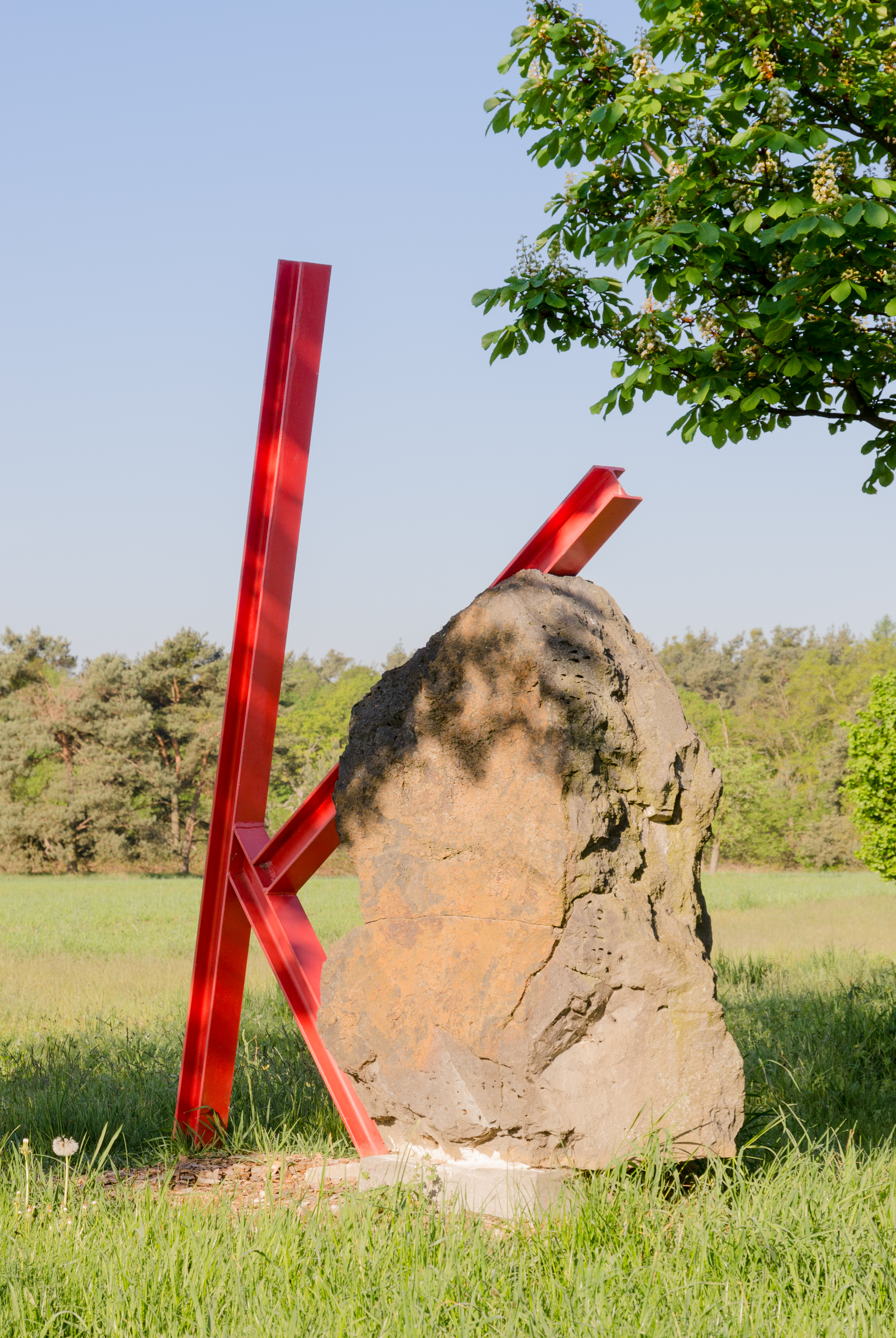 Sculpture K - Alf Becker, Mörfelden-Walldorf, Hesse, Germany.